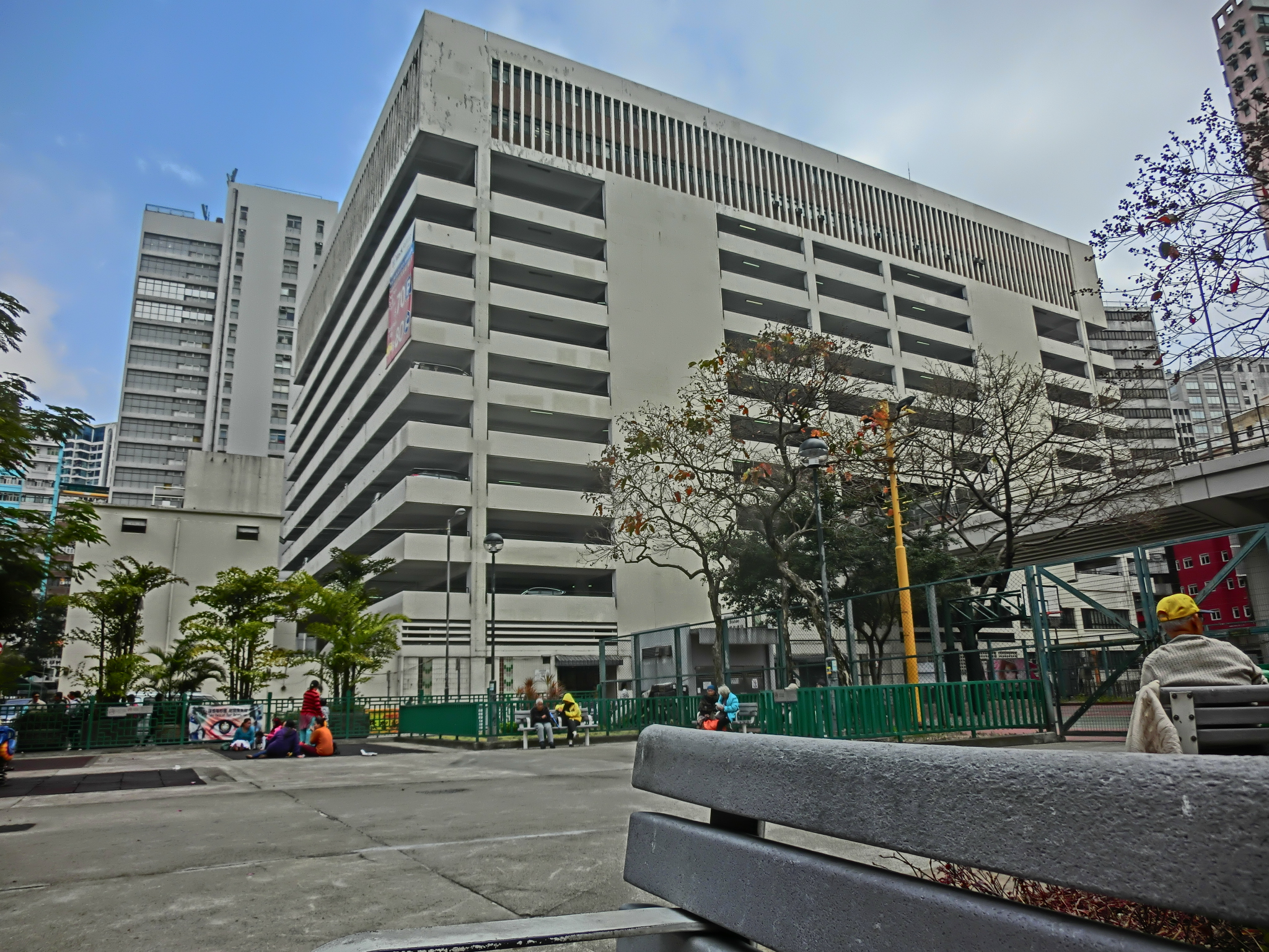 上海街, Shanghai Street, Yau Ma Tei, Hong Kong